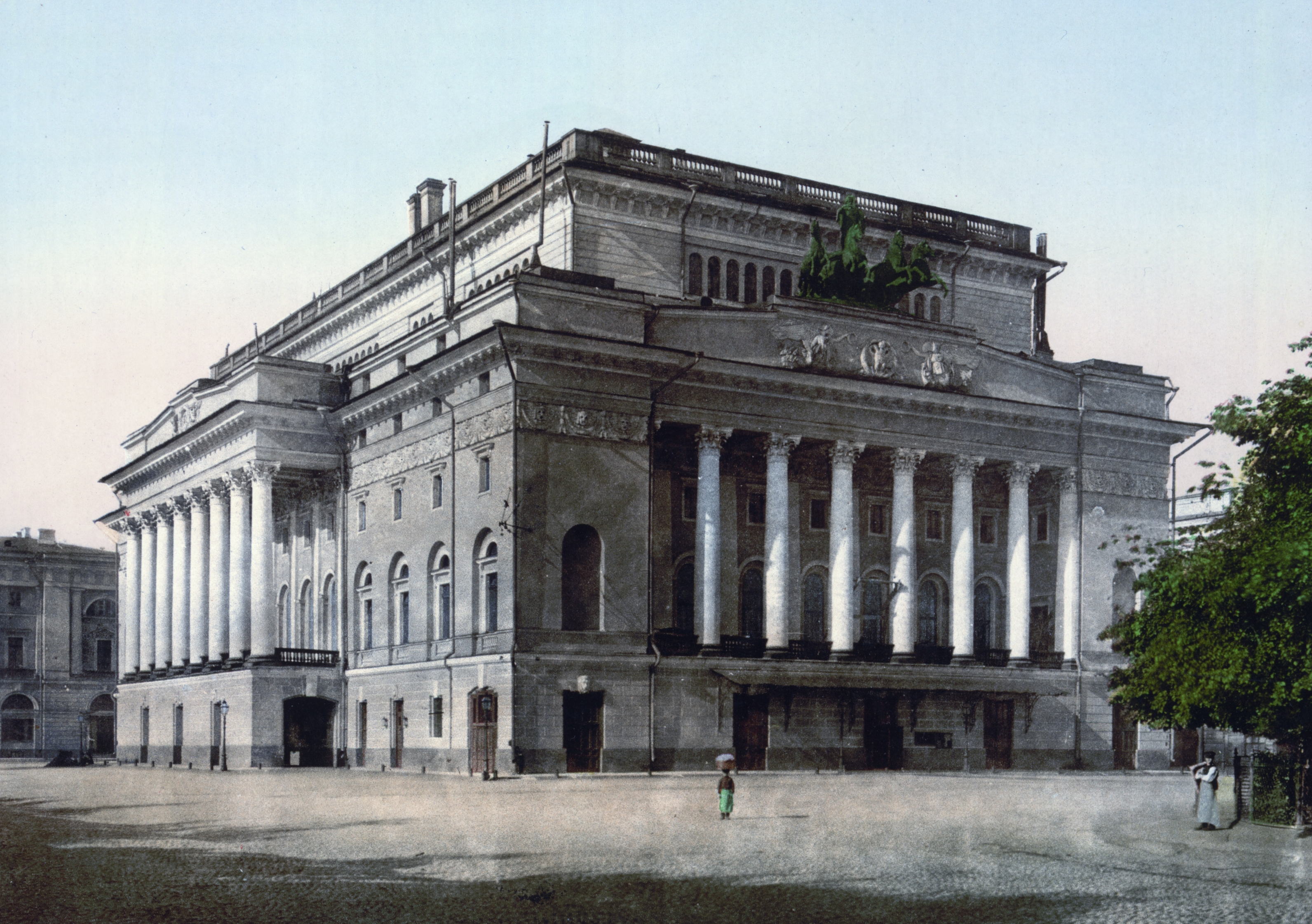 Alexandrinsky Theatre in St Petersburg (Russia). 19th-century photochrome print (1890—1900)